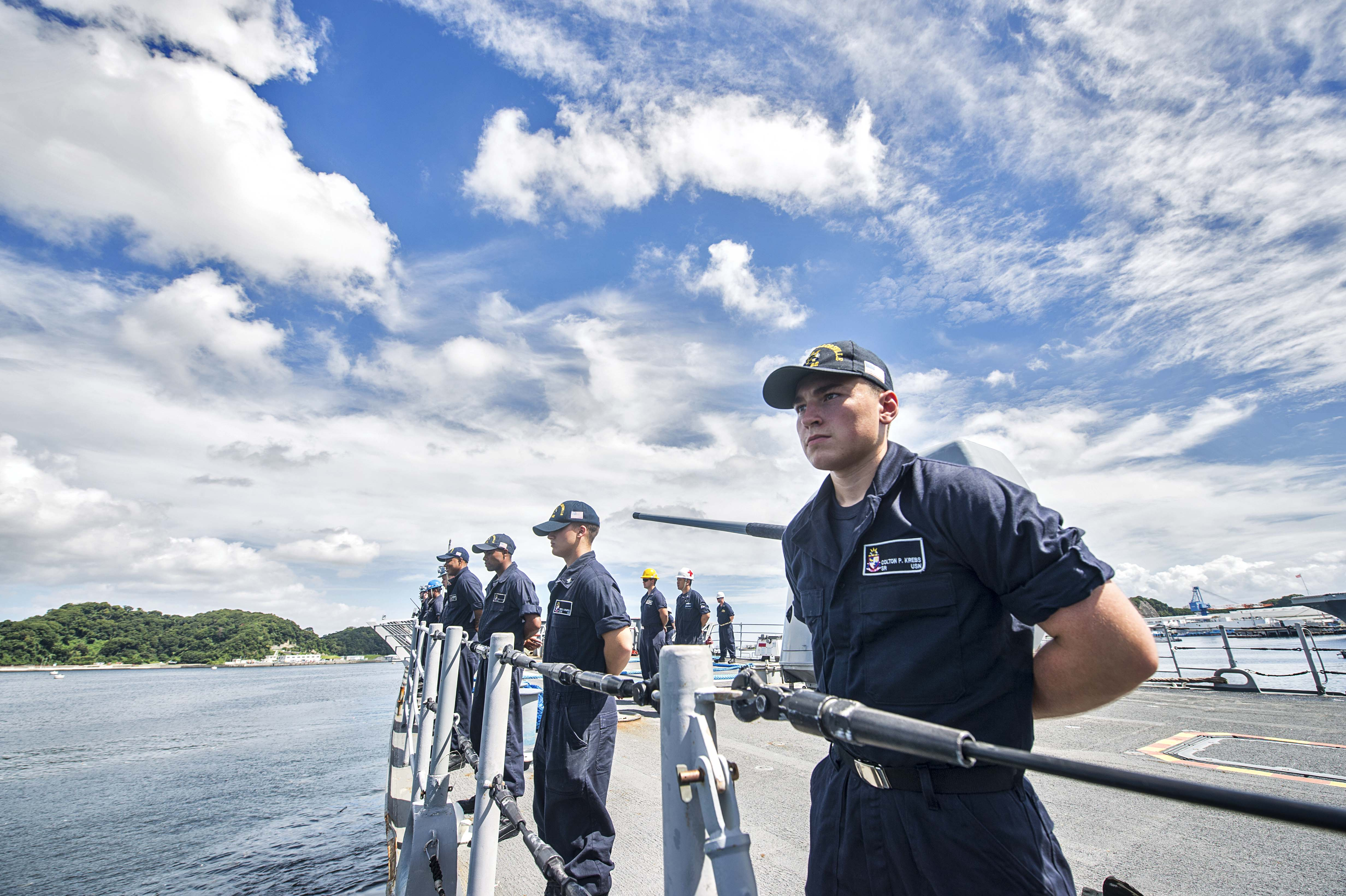 160821-N-XQ474-019 YOKOSUKA, Japan (Aug. 21, 2016) Sailors stand at parade rest aboard the Ticonderoga-class guided-missile cruiser USS Chancellorsville (CG 62) to depart Fleet Activities Yokosuka as a precaution for tropical storm Mindulle. Chancellorsville is forward deployed to Japan supporting security and stability in the Indo-Asia-Pacific. (U.S. Navy photo by Mass Communication Specialist 2nd Class Andrew Schneider/Released)